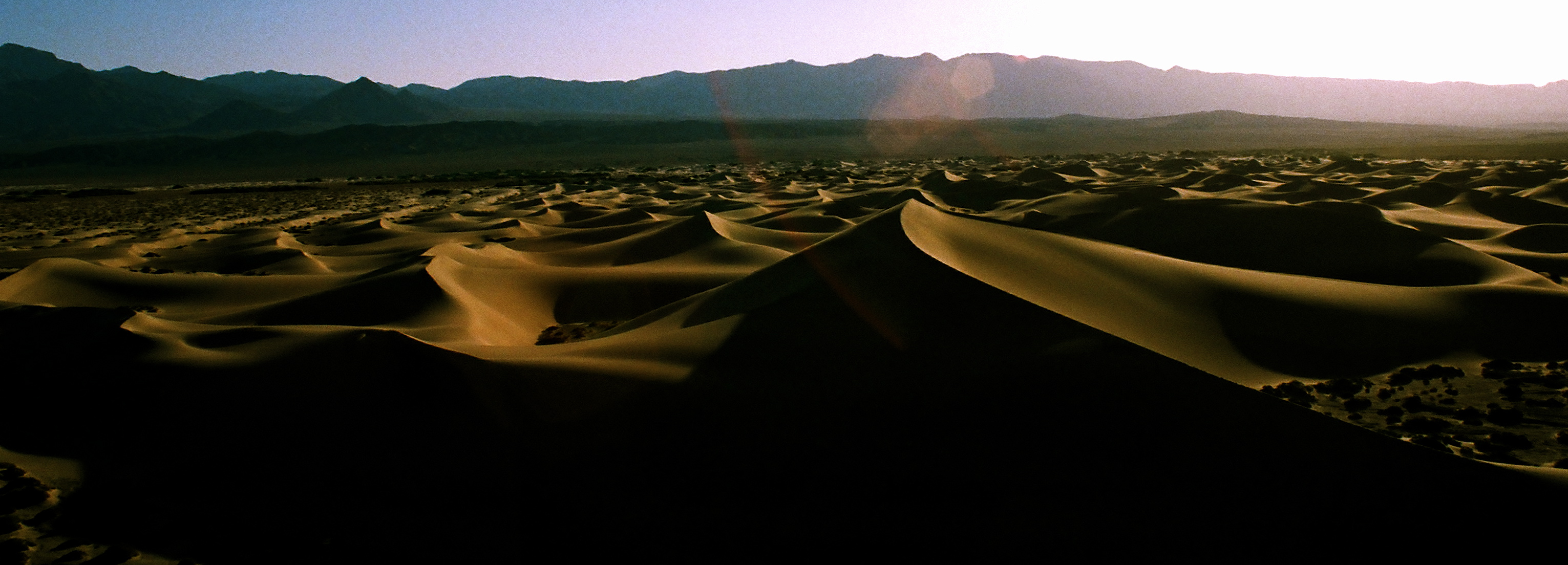 Dunes at Death Valley, Ca looking east towards Nevada